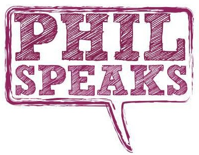 The logo image of the PhilSpeaks Debating and Public Speaking Initiative of the University Philosophical Society, Trinity College, Dublin. Originally created for the Initiative by Glen Byrne (MC of the University Philsophical Society 329th Session).